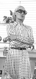 Argentine actress Norma Pons in a scene from the film La Guerra de los Sostenes.